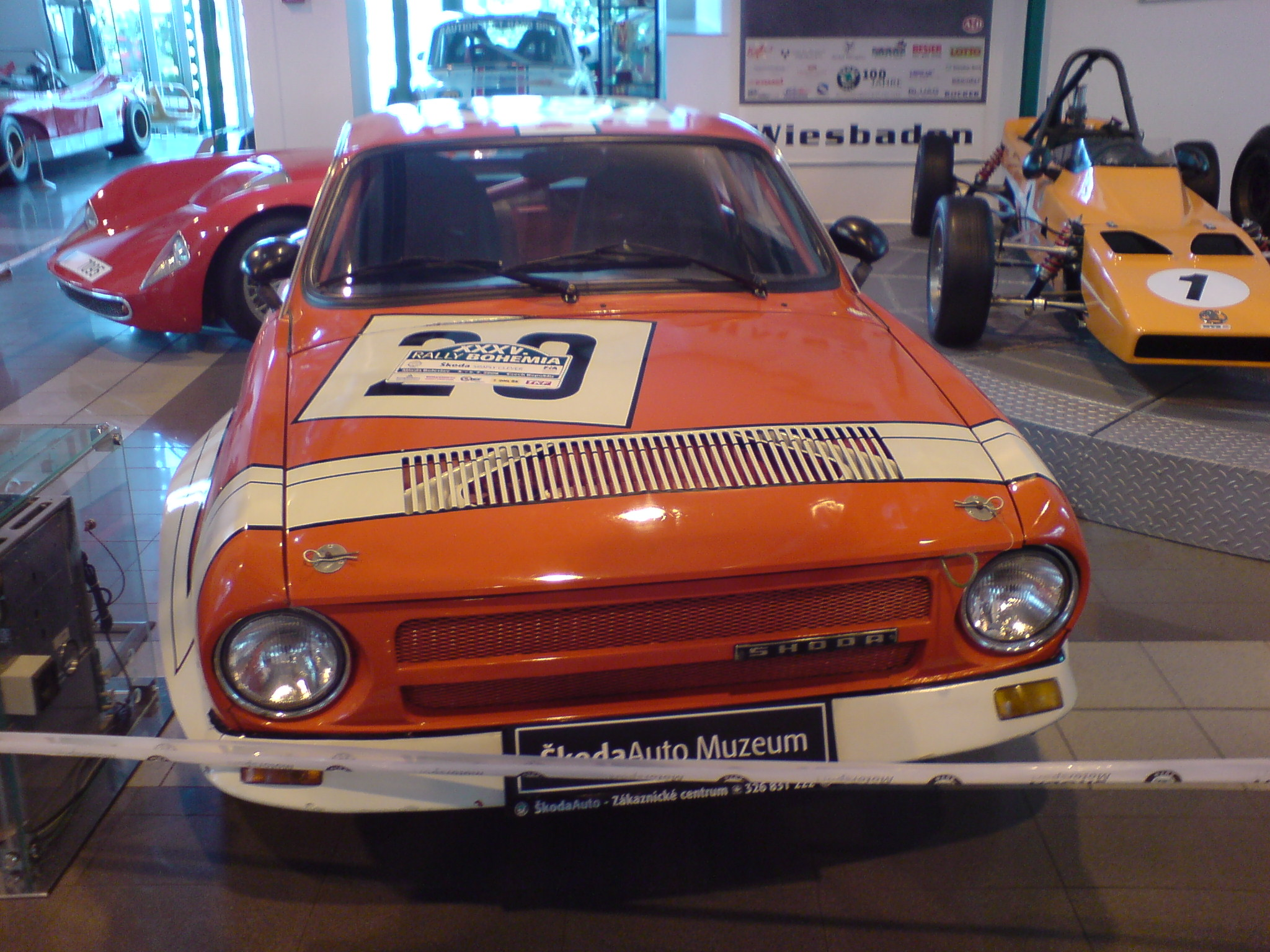 Škoda 180 RS in museum in Mladá Boleslav